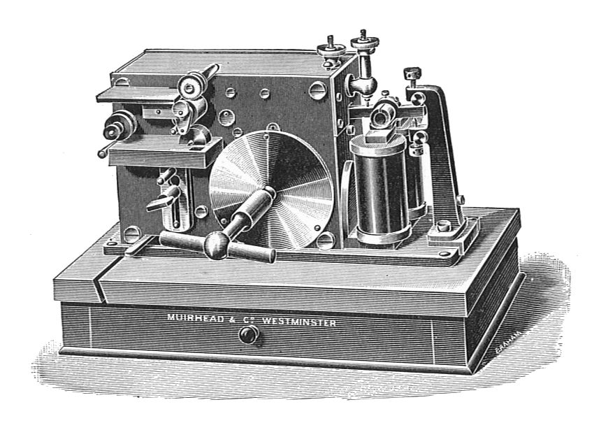 Muirhead Morse inker (Rankin Kennedy, Electrical Installations, Vol V, 1903).jpg